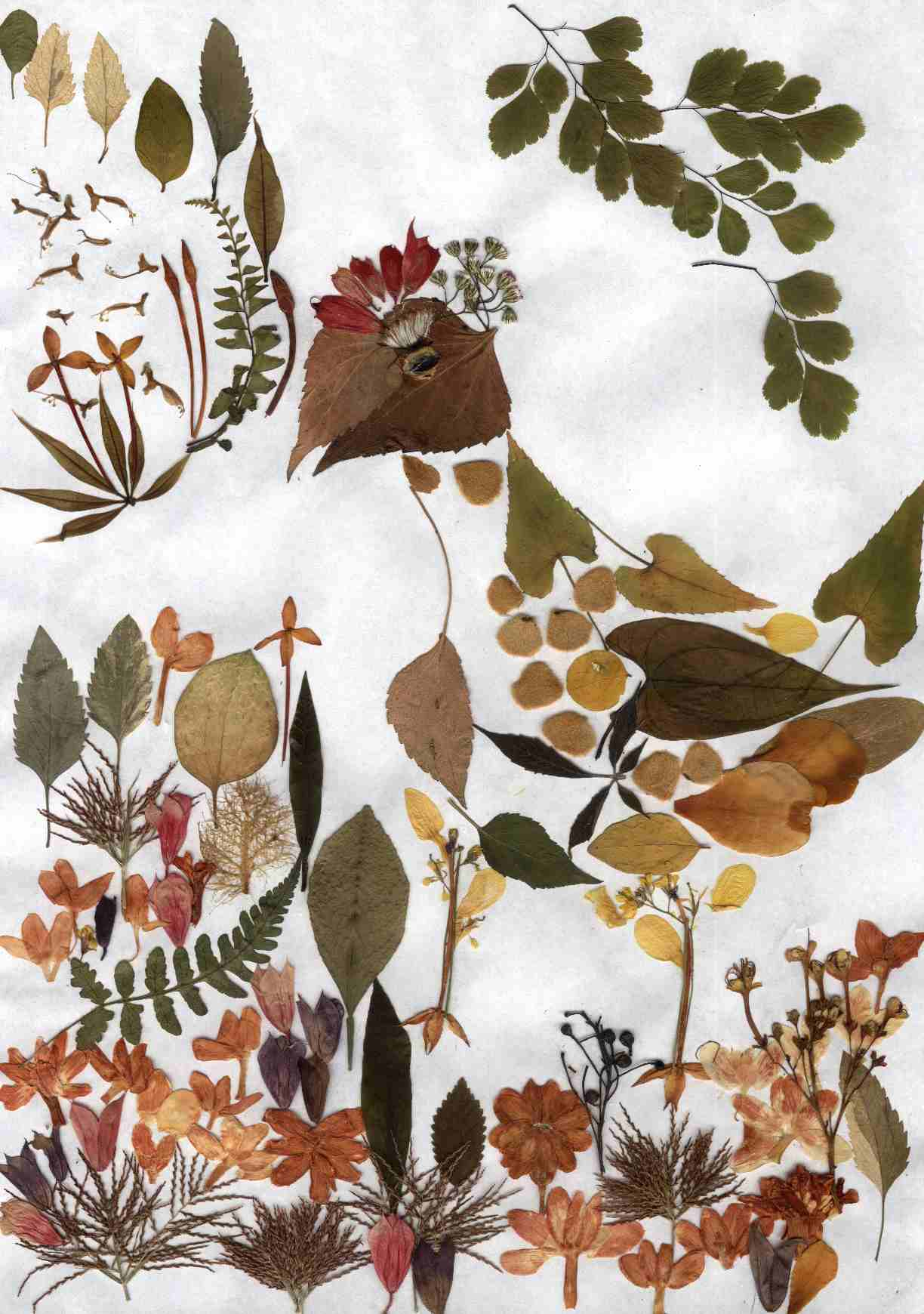 和平 (heping) - 押花 Pressed flowers